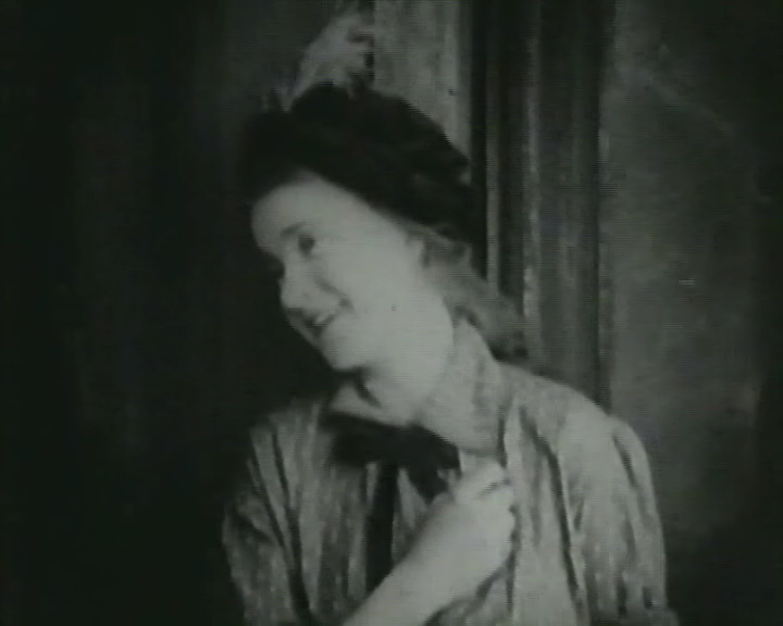 Scene from the movie Intolerance. 1916.